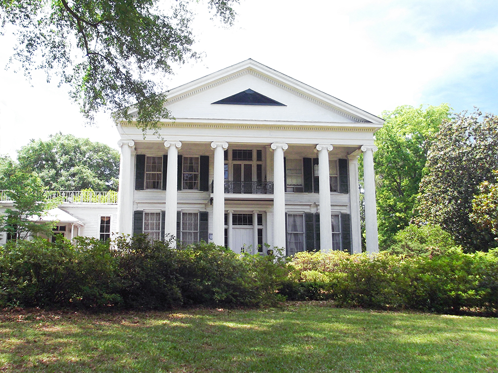 View of the north (rear) facade of Magnolia Hall in Greensboro, Alabama.